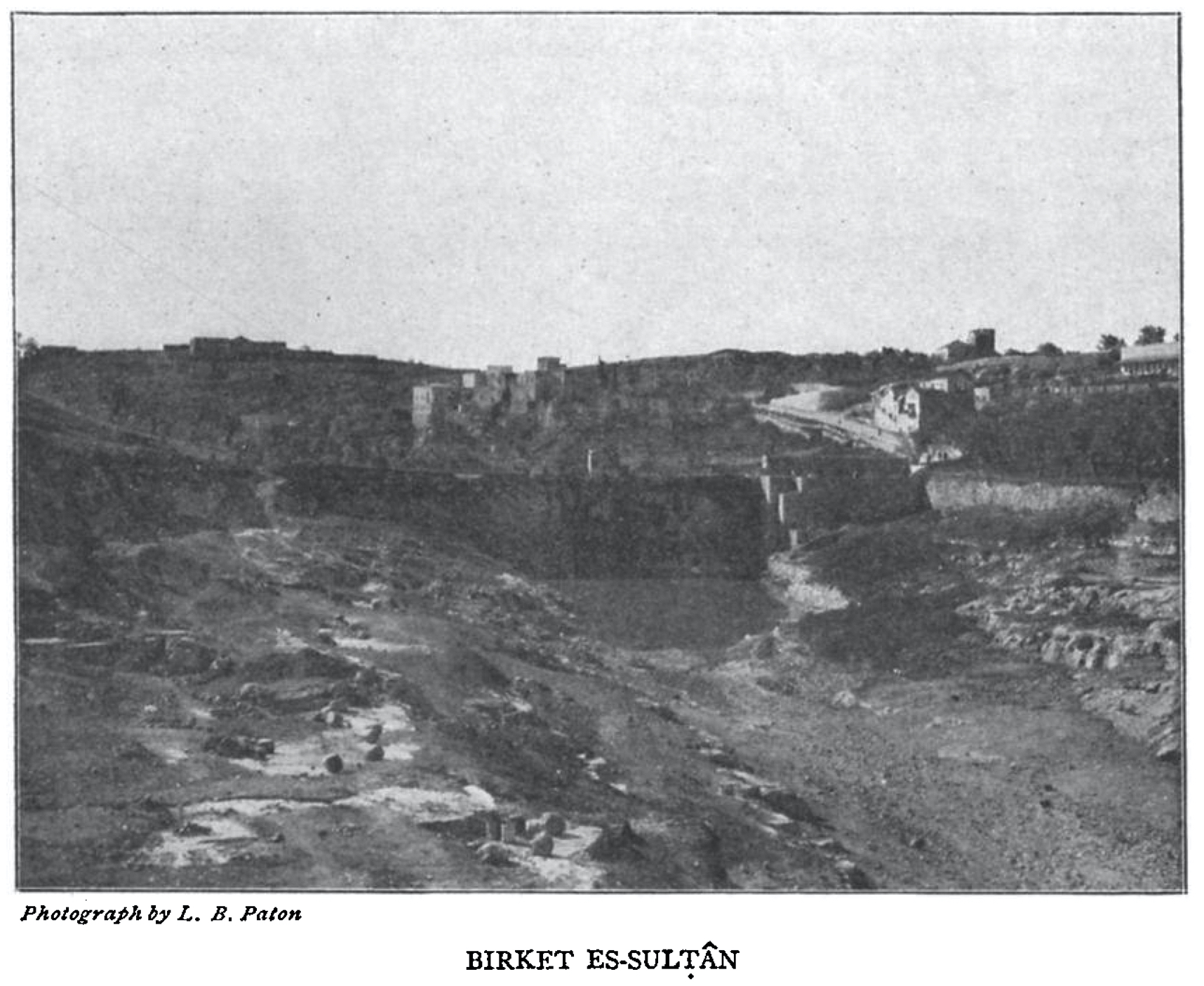 Birket Sultan